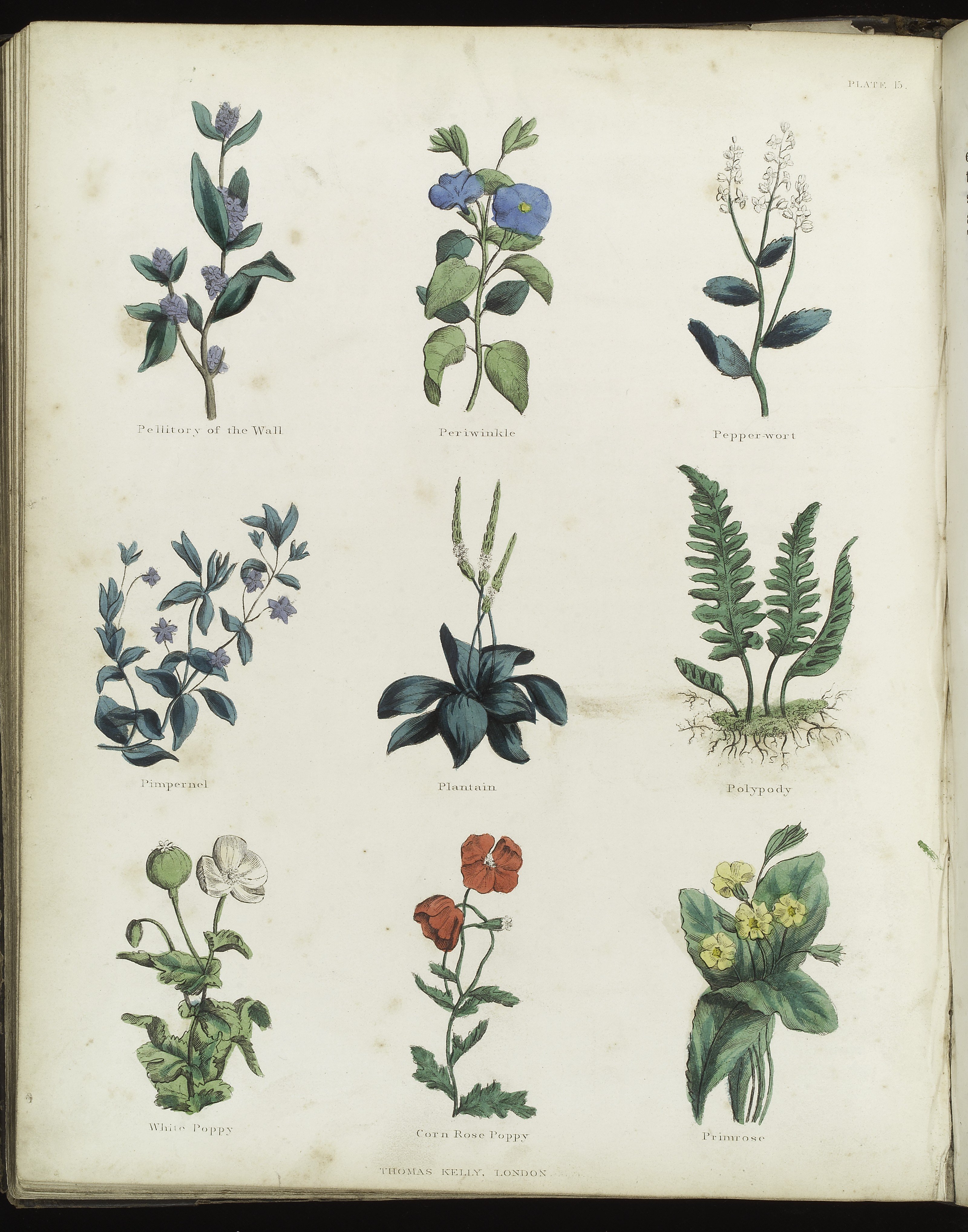 Plants and herbs from Culpeper's 'The Complete Herbal...' From top right: Pellitory of the Wall (Parietaria sp.) Periwinkle (Vinca sp.) Pepper-wort (Lepidium sp.) Pimpernel (Anagallis/Lysimachia sp.) Plantain (Plantago sp.) Polypody (Polypodium sp.) White Poppy (Papaver sp.) Corn Rose Poppy (Papaver rhoeas) Primrose (Primula sp.) Rare Books, Keywords: Botanical; Materia Medica